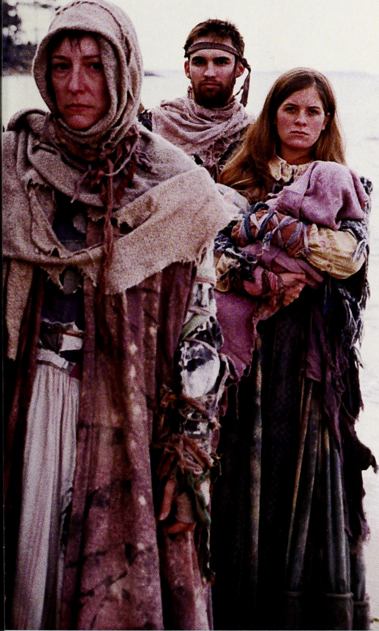 The "Lost Colony" settlers seek the protection of Manteo. The cast traditionally includes local and professional actors. Title: Coast watch Year: 1979 (1970s) Authors: UNC Sea Grant College Program Subjects: Marine resources; Oceanography; Coastal zone management; Coastal ecology Publisher: (Raleigh, N. C. : UNC Sea Grant College Program) Text Appearing Before Image: PEOPLE & PLACES Text Appearing After Image: America's First Mystery: The Lost Colony By P a m Smith M -ore than 400 years ago, the real-life drama of Tlie Lost Colony played out on North Carolina's Roanoke Island. A brave band of English settlers — determined to establish the first permanent English settlement in the New World — embarked on an uncertain venture in 1587. Then they vanished without a trace. The play by Pulitzer Prize-winning playwright Paul Green dramatizes the historic record of the exploratory voyages commissioned by Sir Walter Raleigh between 1584 and 1587. "It's America's first great mystery," says Rhett B. White, executive manager of Tlie Lost Colony, the first and longest-running outdoor symphonic drama in the country. The play, produced by the Roanoke Island Historical Association (RIHA), debuted on July 4, 1937. In its 66 seasons, more than three million people have watched the story unfold under the stars at Waterside Theatre on the historic site where the settlers were seen last. The 2003 season runs through Aug. 22 and is under the artistic direction of Terrence Mann for the third consecutive year. Mann — an award- winning Broadway actor/director and film star — cut his acting teeth as a member of Tlie Lost Colony cast in the 1970s. Continued LEFT: The Lost Colony settlers seek the protection of Manteo. The cast traditionally includes local and professional actors. Even Andy Griffith launched his career in the 1952 production.